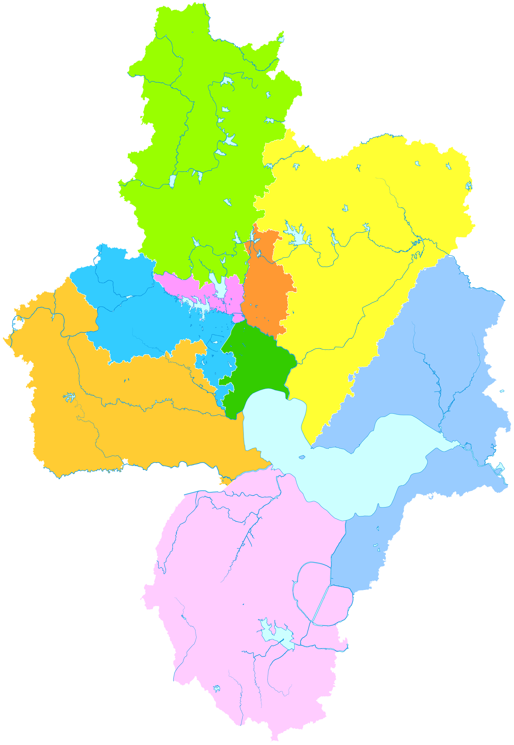 administrative divisions of Hefei City, Anhui, China